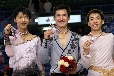 The men's podium at the 2013 Skate Canada International. From left: Yuzuru Hanyu (2nd), Patrick Chan (1st), Nobunari Oda (3rd).